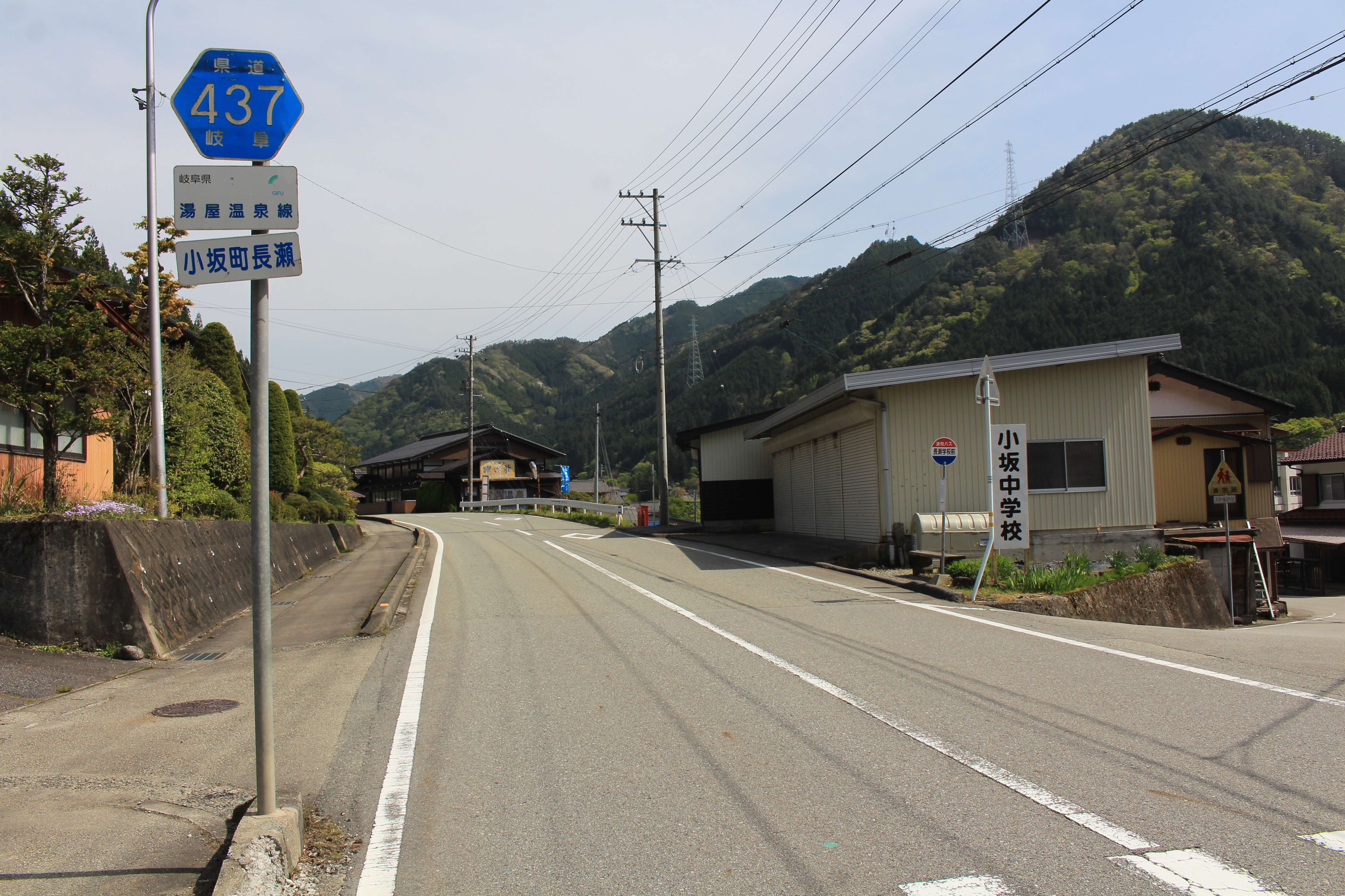 Gifu Prefectural Road Route 437 in Nagase, Osakacho, Gero, Gifu Prefecture, Japan.